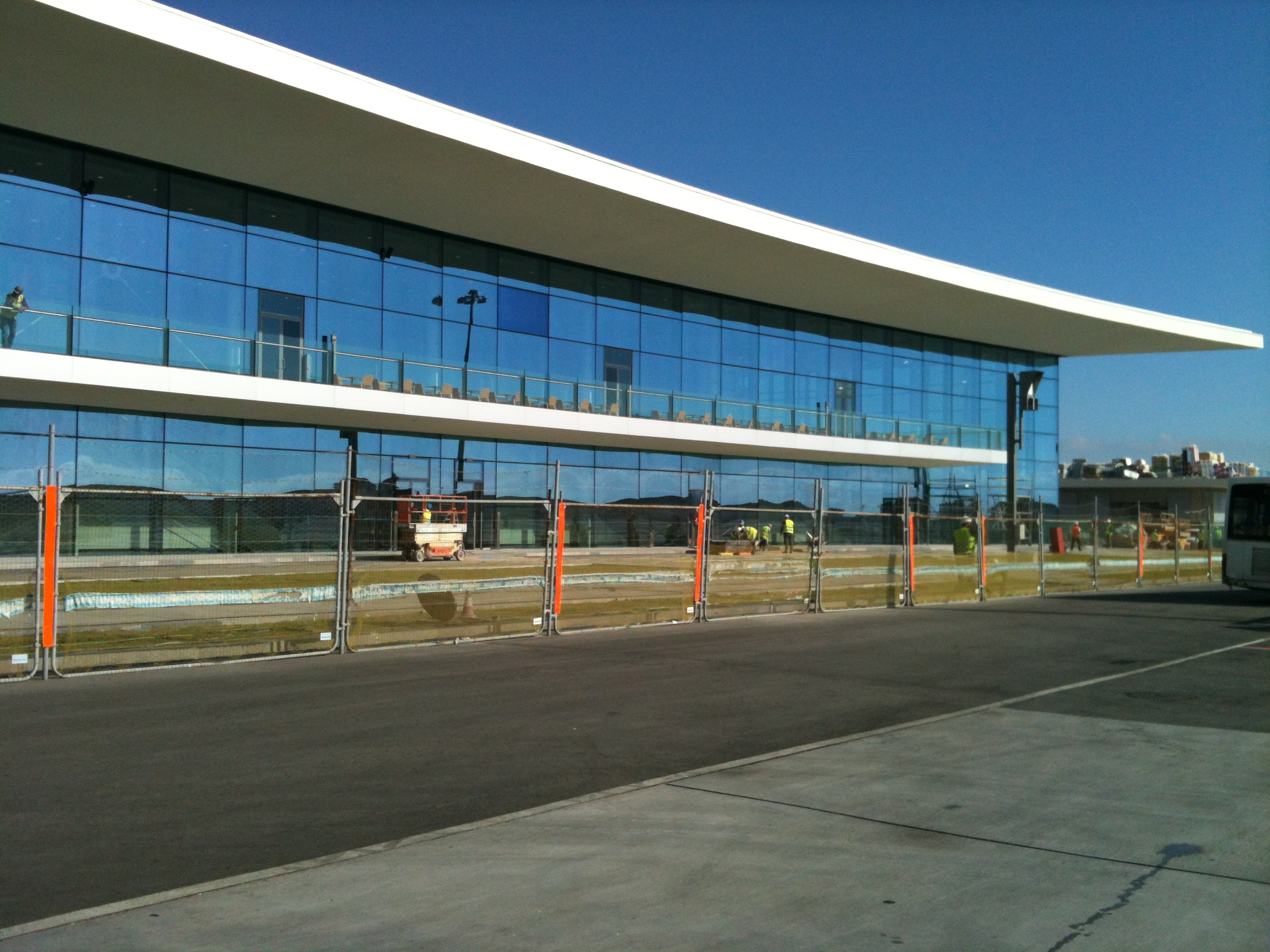 New Gibraltar Airport, taken from the aircraft apron.